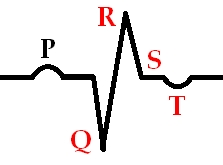 Заживающий инфаркт миокарда